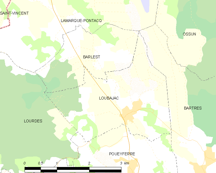 Map of French municipality